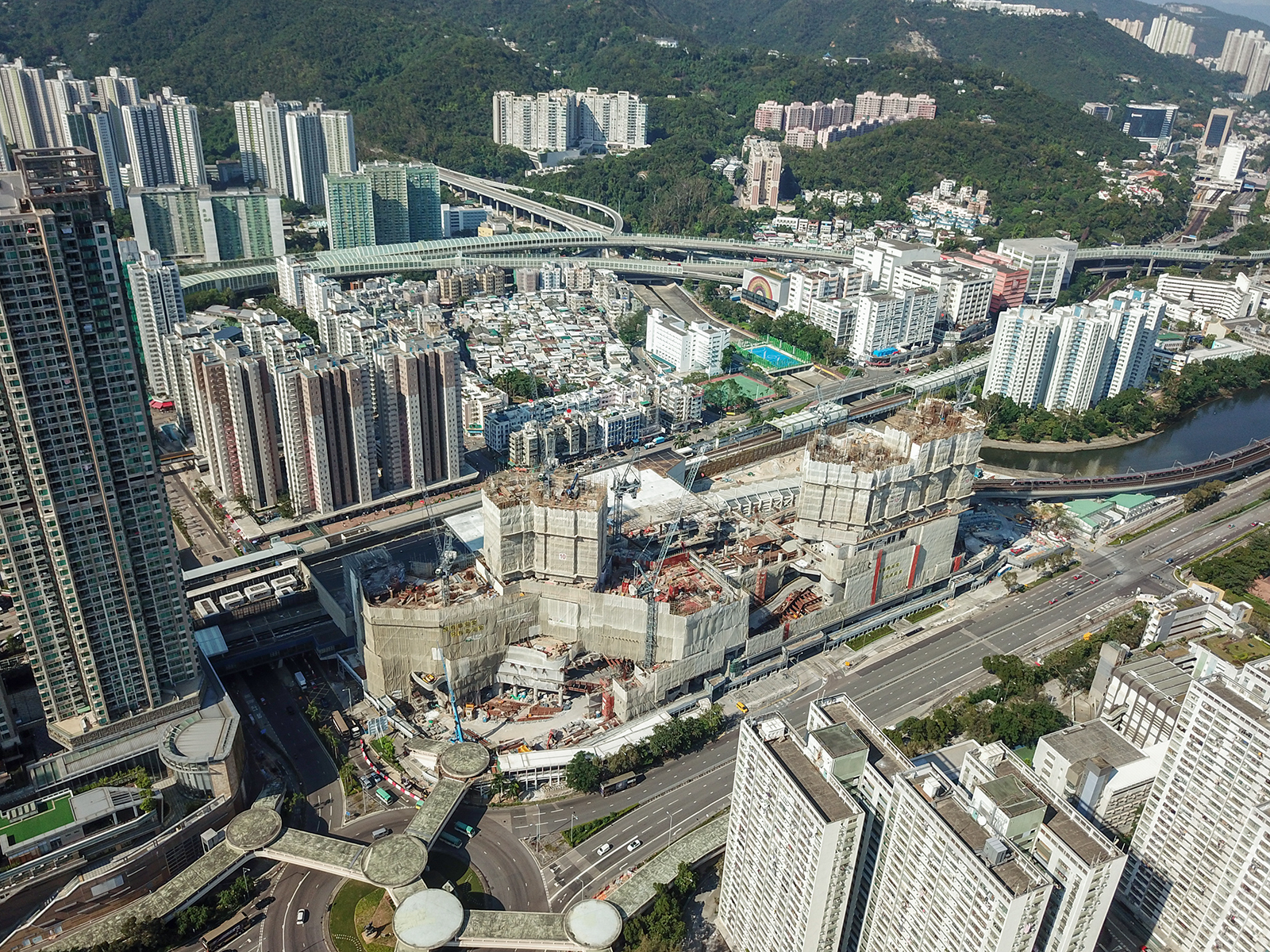 Tai Wai Station Property Site